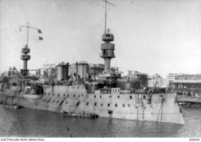 AWM caption : "Port Said, Egypt. c 1915. The French Battleship Jaureguiberry at anchor. Her hull is painted a light grey, while the turrets are very dark grey or black. Note the extreme tumblehome of the hull. The dominant fighting tops and thick military masts common to French battleships completed in the 1890s."